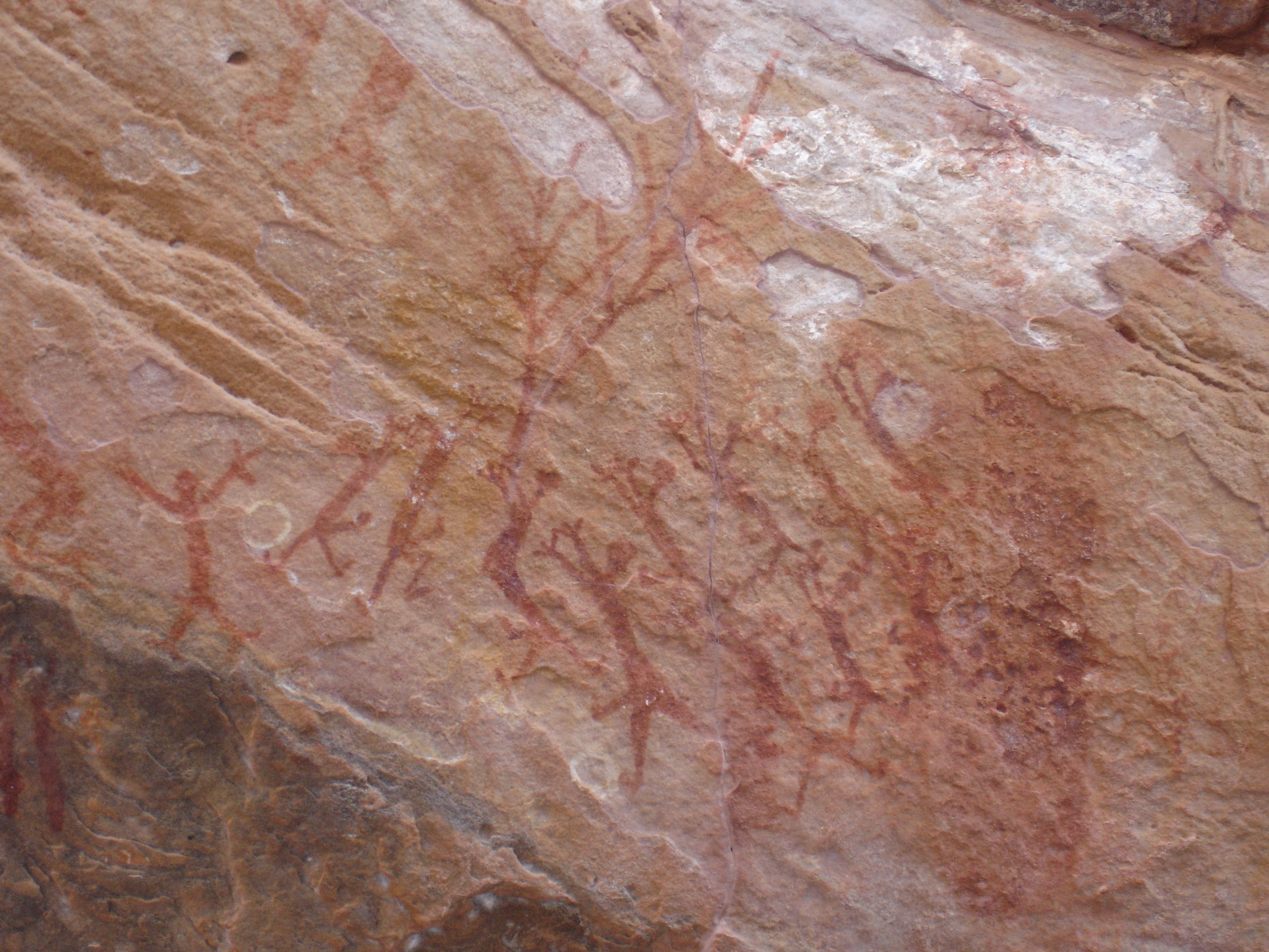 Tree ritual / worshiping?